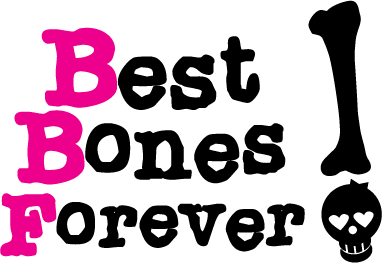 Best Bones Forever! logo